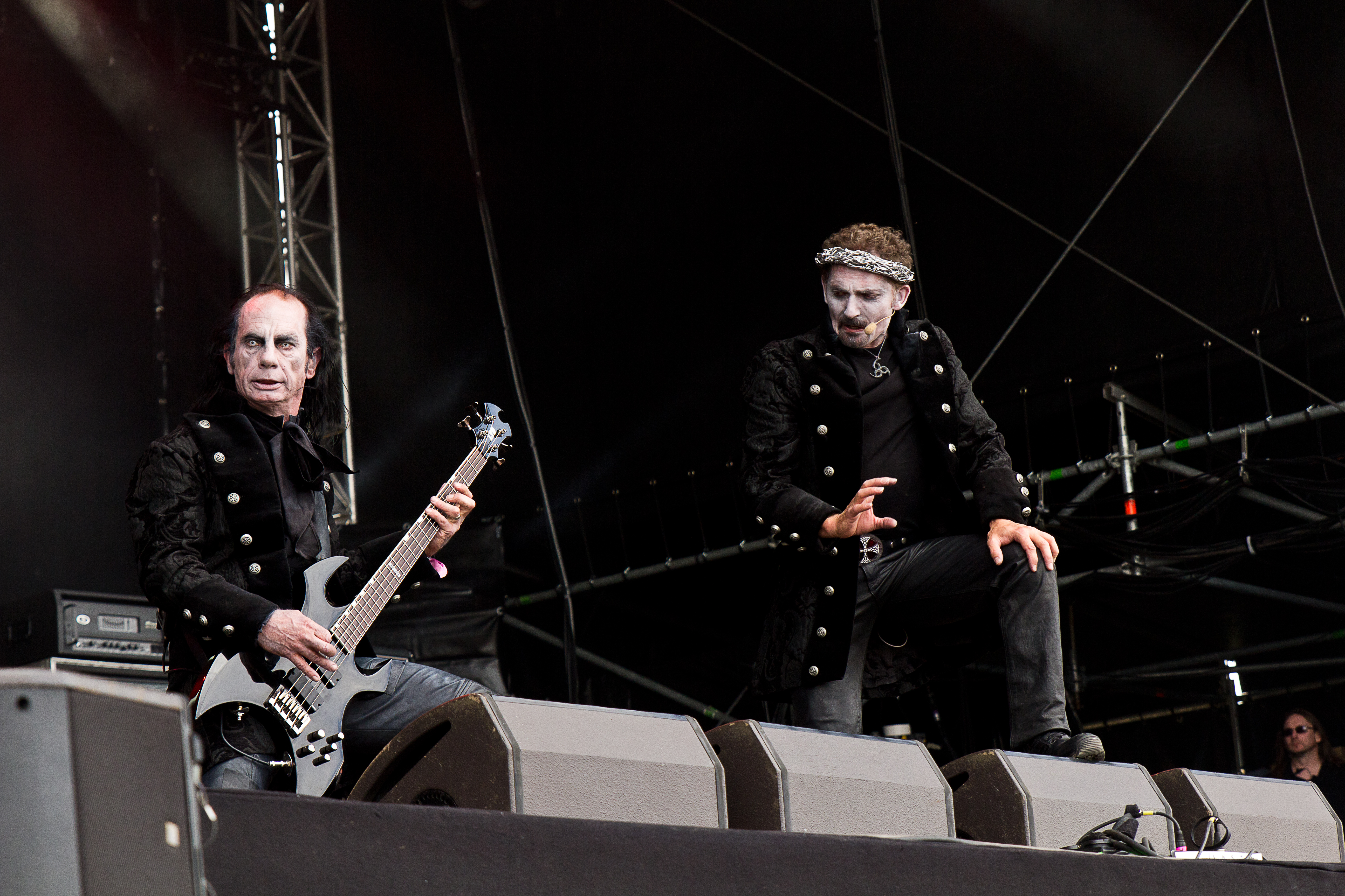 The British heavy metal band Hell at the Rockharz Open Air 2015 in Ballenstedt/Germany.